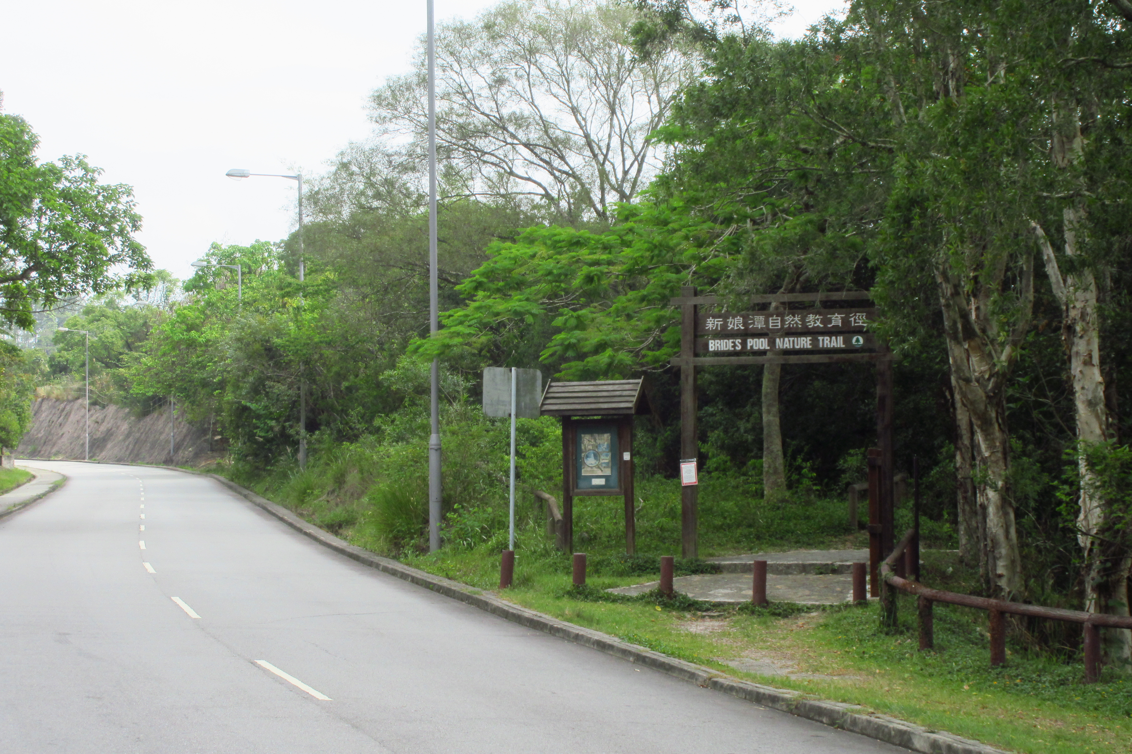 HK walking 新娘潭路 Bride's Pool Road in June 2018